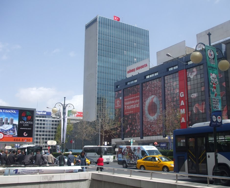 Kızılay Emek Business Center (2013)